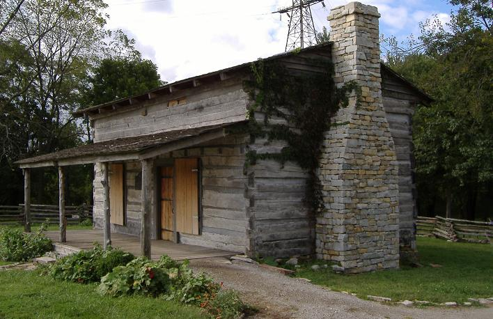 Reconstruction of the George Rogers Clark cabin, built in 2001 at the Old Clarksville Site in Clarksville, Indiana, United States. The Old Clarksville Site is listed on the National Register of Historic Places.